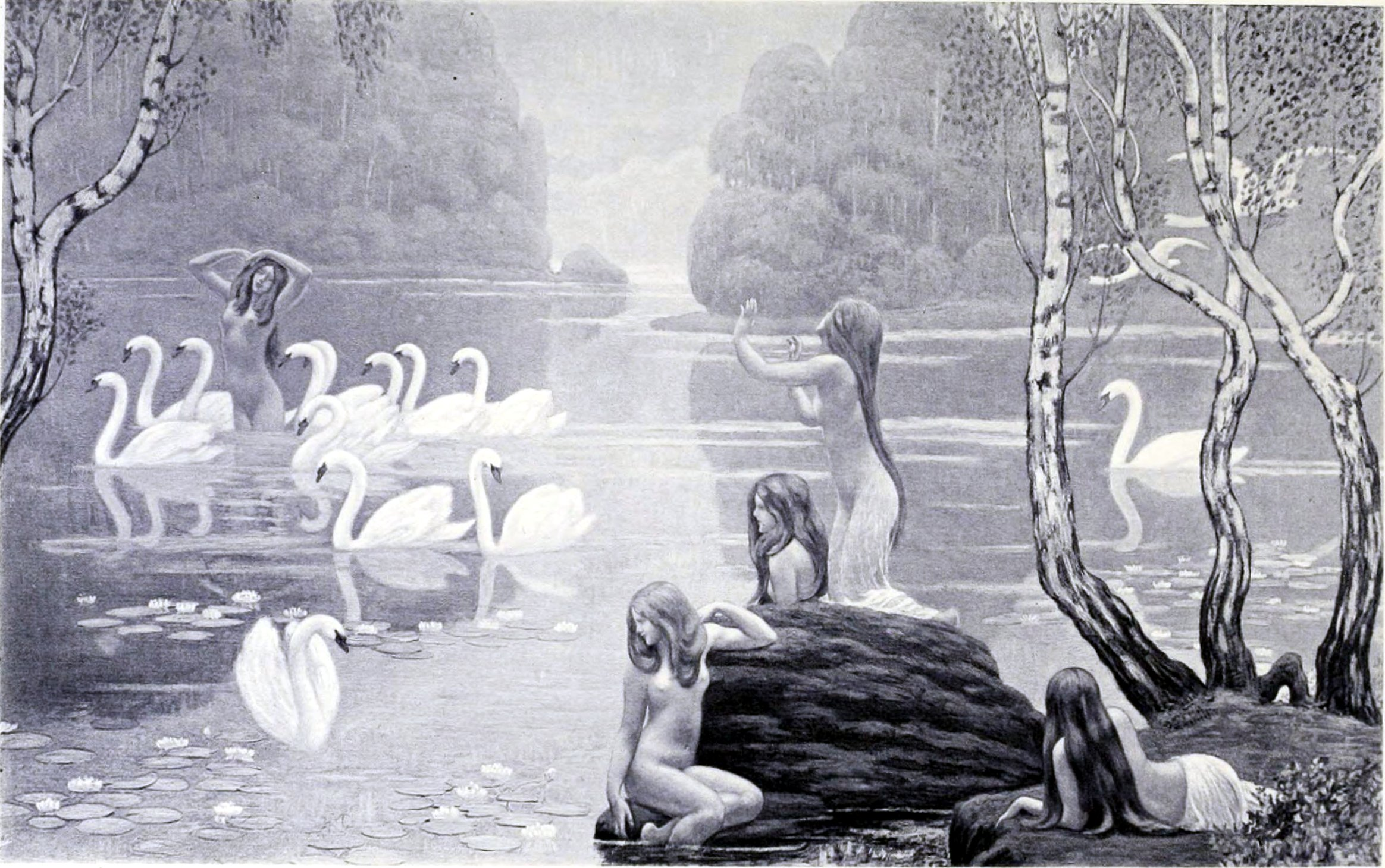 Daybreak 'midst the swans